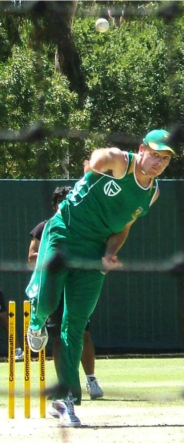 Johna Botha at a training session at the Adelaide Oval